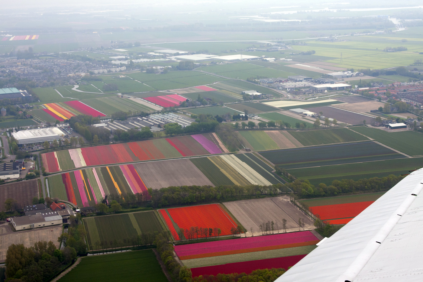 Famous. No sun unfortunately.